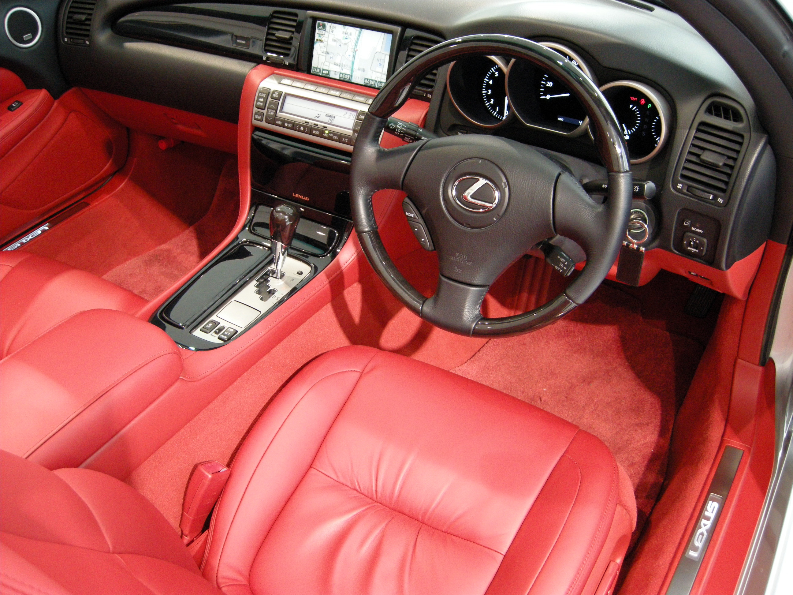 Lexus SC430 Interior